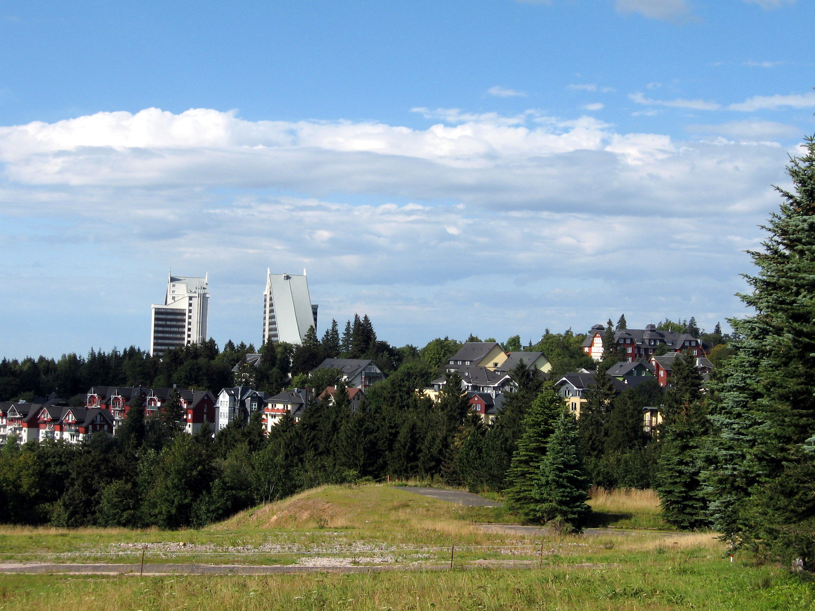 germany: town Oberhof - picture in great